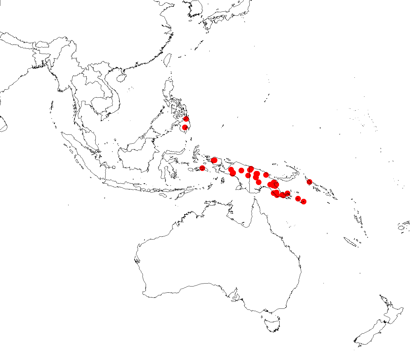 Parsonsia curvisepala Occurrence data downloaded from (21 December 2018) GBIF Occurrence Download